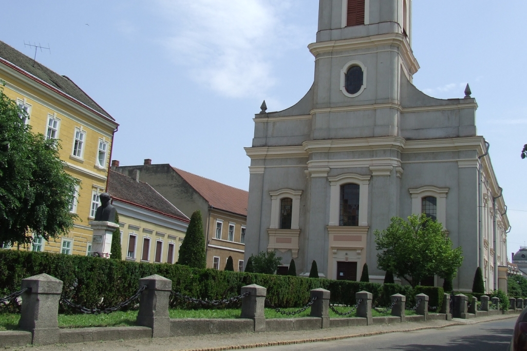 Satu Mare Chains Church, Romania